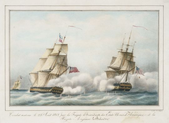 “Battle of the 23 August 1812 between the US frigate President and the English frigate Belvidera”